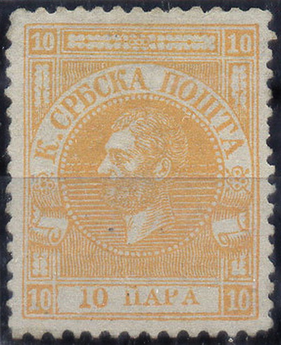 First stamp of Serbia, 1866, 10 para.